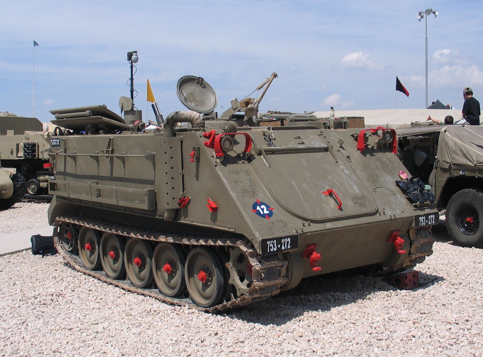 M113-based mortar carrier, demonstrated at Israel's 60th Independence Day exhibition in Yad la-Shiryon Museum, Israel.